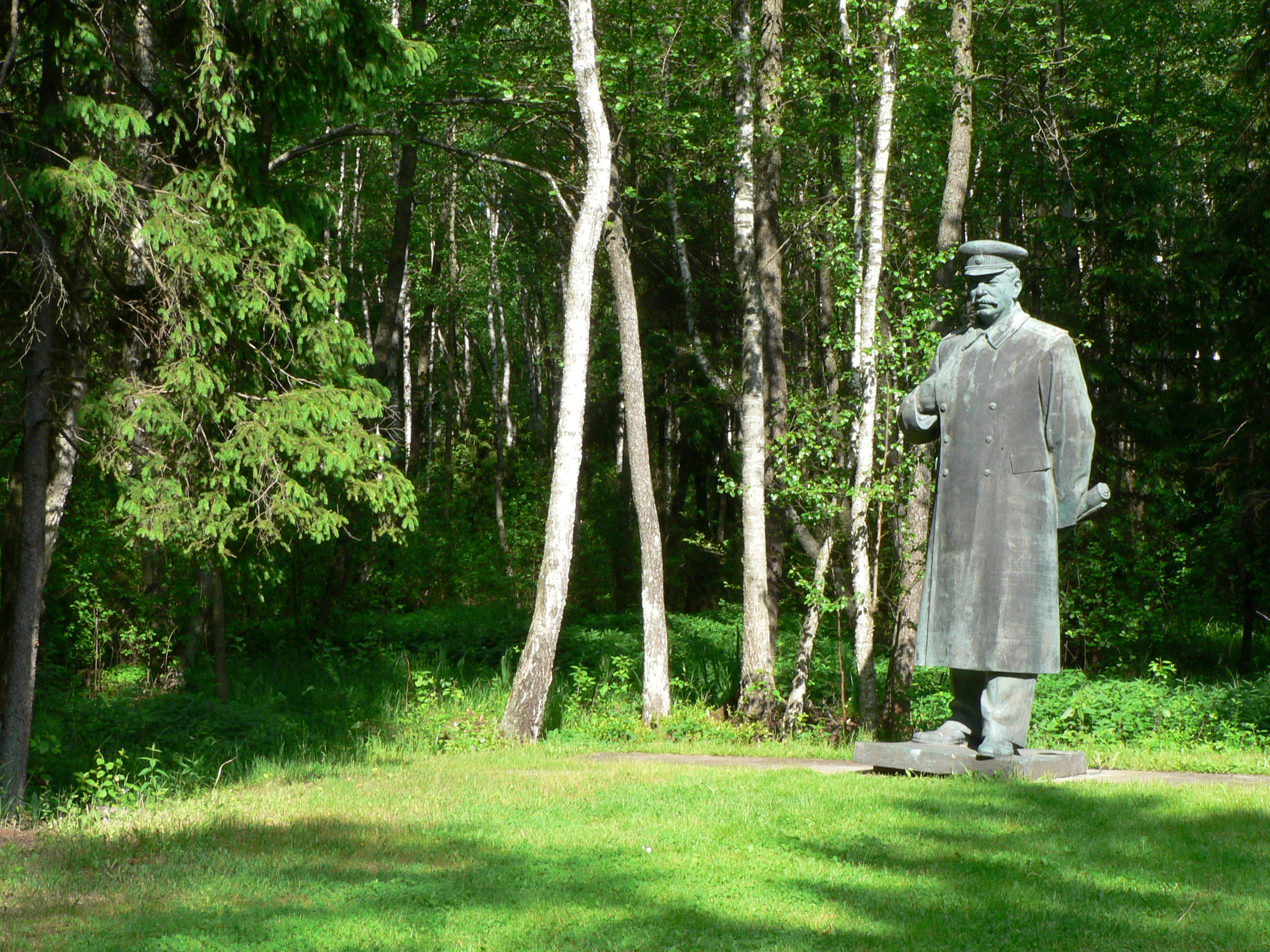 Stalin monument in Grutas park, Grutas village, Lithuania. (moved from Vilnius) Author: Wojsyl, 2005